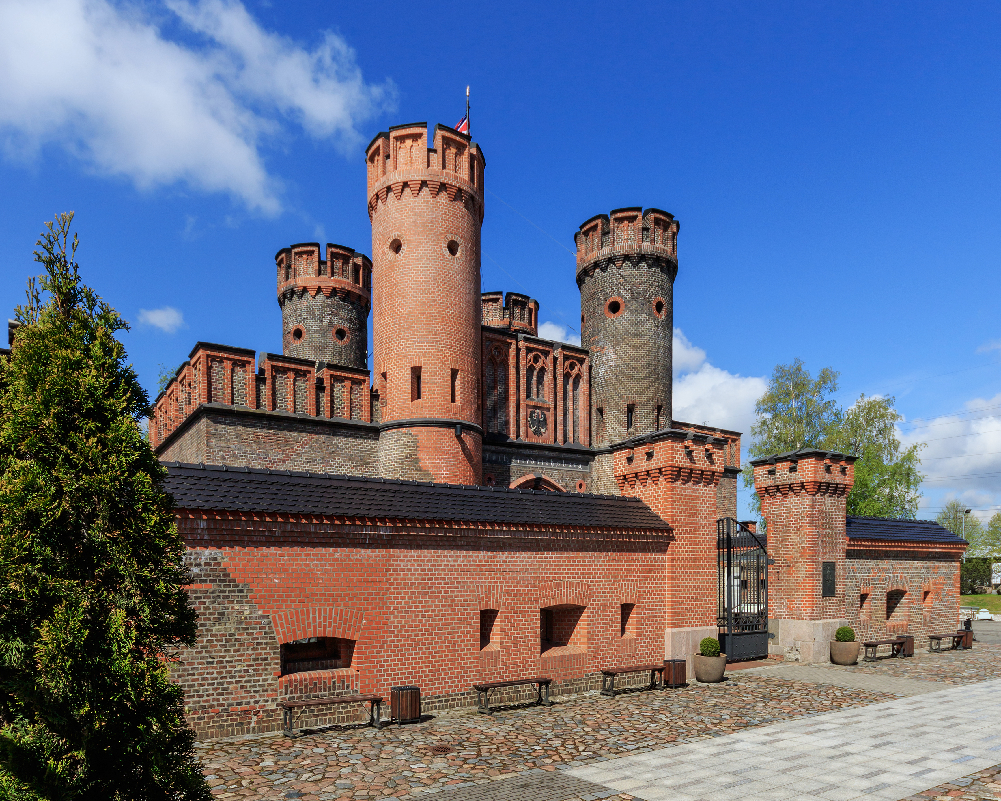 Fort Friedrichsburg in Kaliningrad formerly Königsberg, Kaliningrad Oblast (Russia).